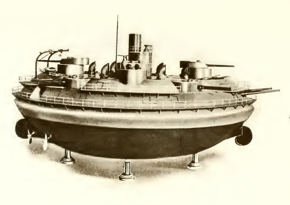 Design by Anson Phelps Stokes for naval floating fort